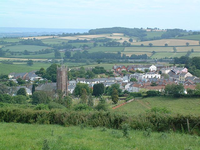 Bradninch from Castle Hill Bradninch Church and village from Castle Hill, which rises to farmland to the north-west of the village. The M5 motorway, which runs along the Culm Valley, can be seen in the middle distance.